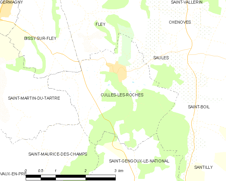 Map of French municipality